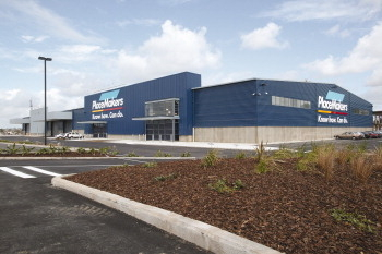 PlaceMakers Outside View